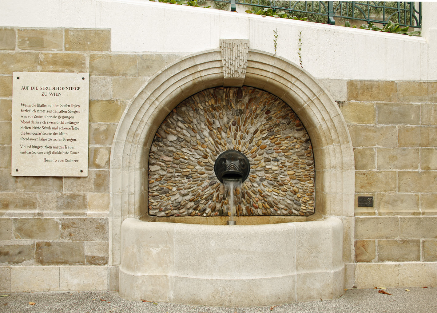 Strudhofstiege - Brunnen und Gedichttafel